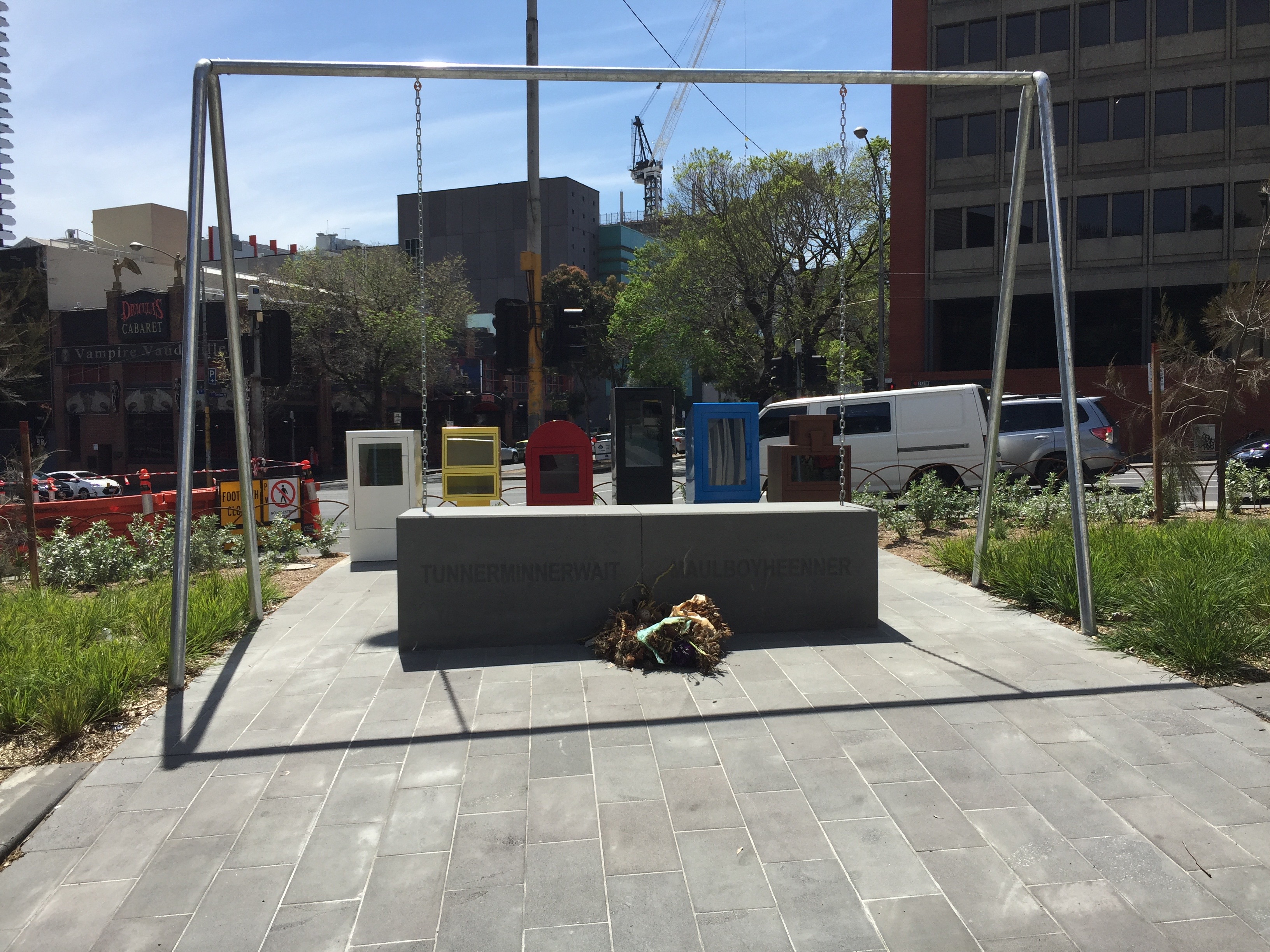 Monument to Tunnerminnerwait and Maulboyheenner, two Aboriginal Tasmanian men executed on 20 January 1842/